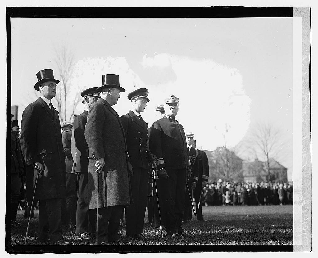 The Prince of Wales, Secty Daniels, Asst. Secty. of the Navy Franklin D. Roosevelt, and Rear Adml. Scales Comandant [i.e., Commandant] of the Naval Academy reviewing Naval Cadets at Annapolis today